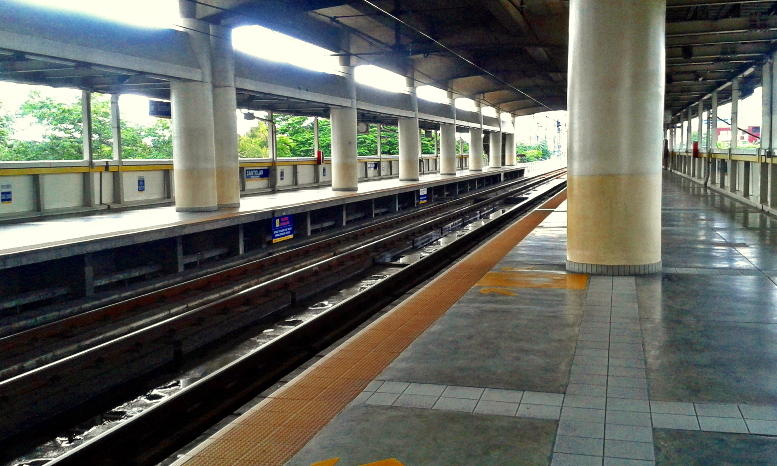 MRT-3 Santolan Station Platform Area.